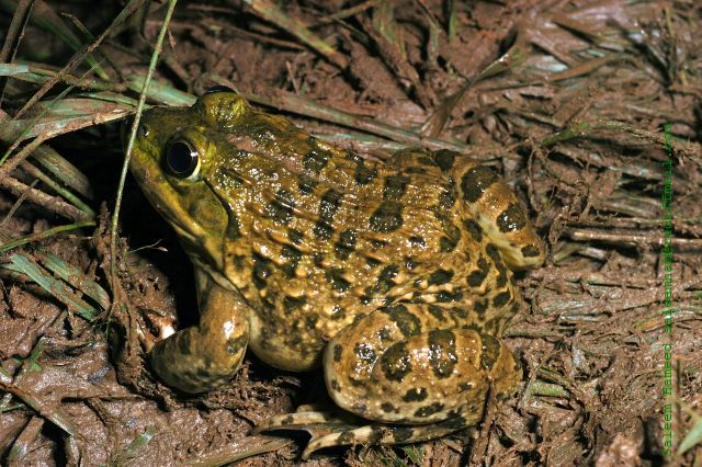 Hoplobatracus tigrinus ?, Bannerghatta, India